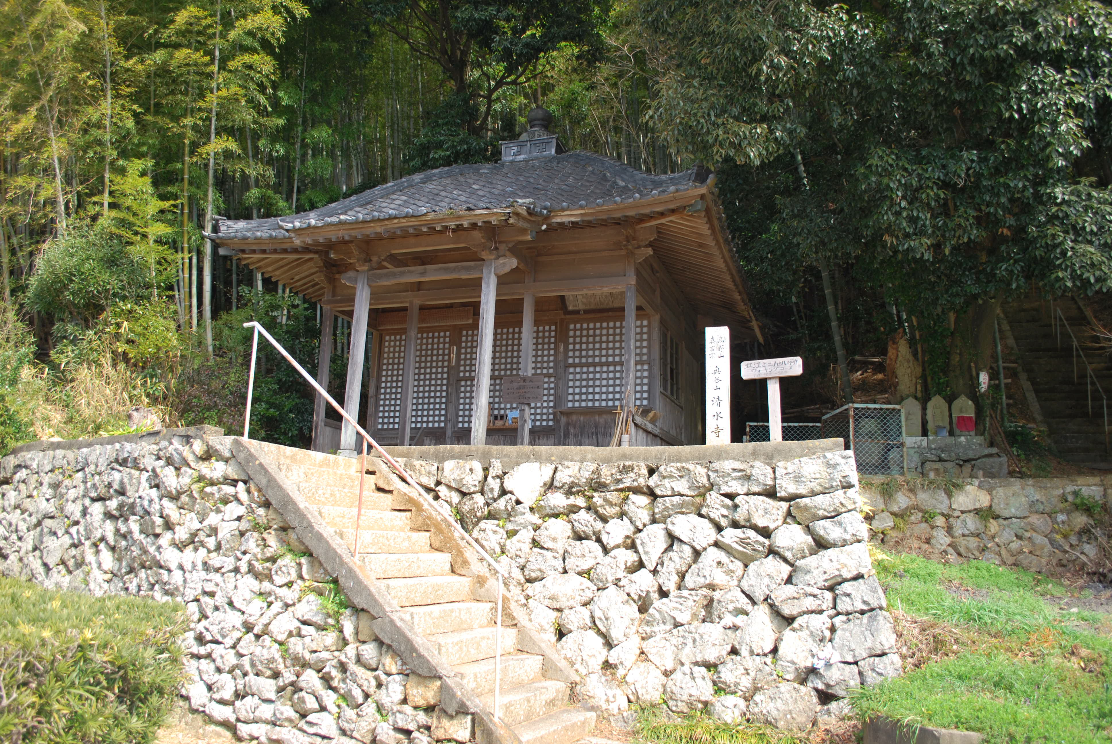 Main hall, Seisui-ji